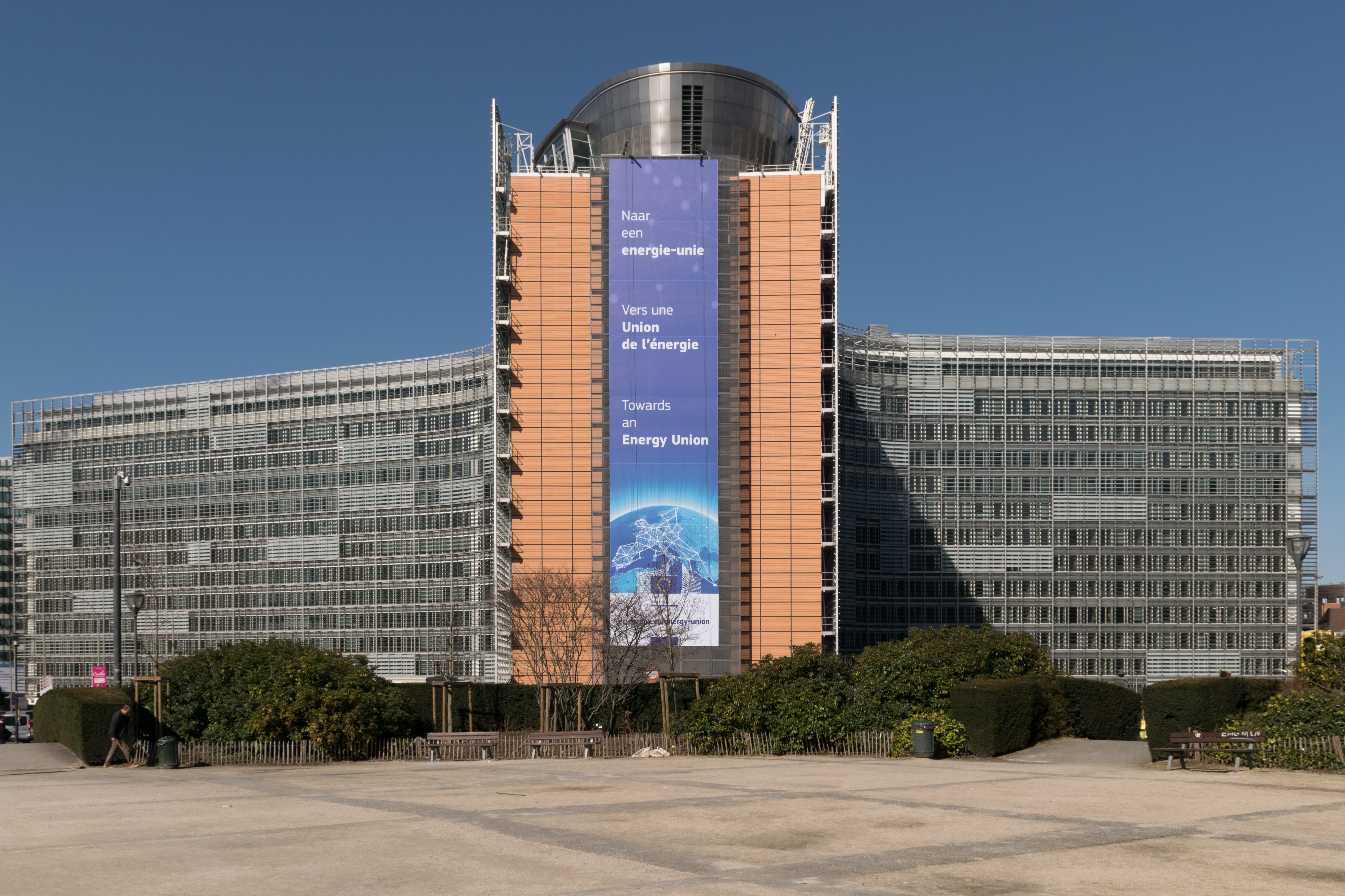 Berlaymont building 2015